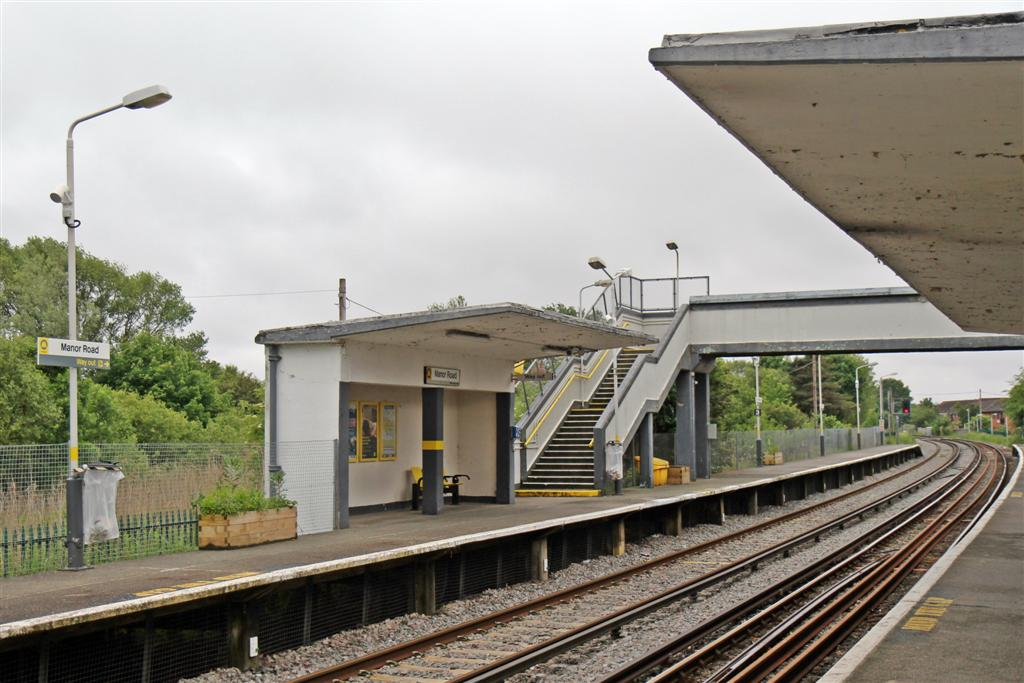 Shelter and footbridge, Manor Road Station, Hoylake